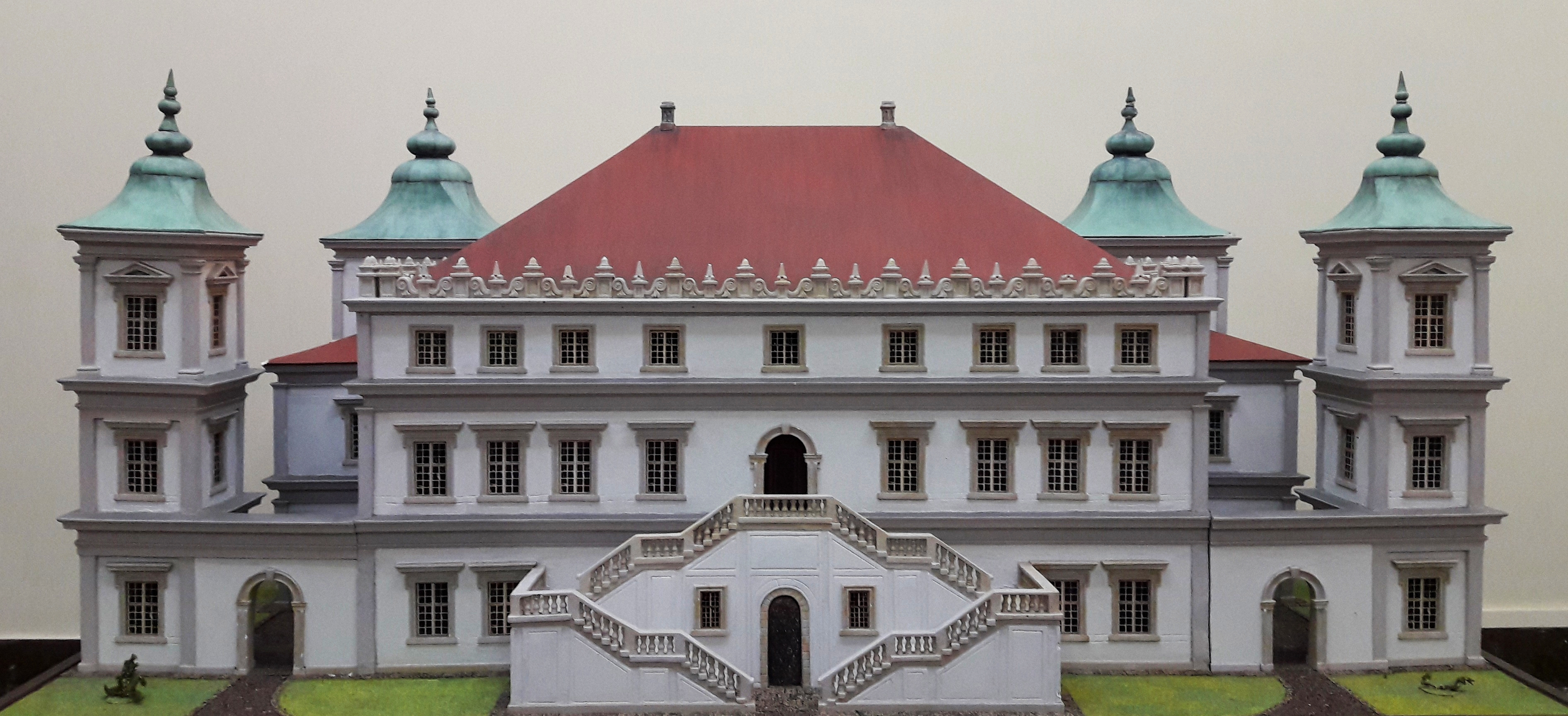 Scale model of Villa Regia Palace in Warsaw, built according to Matteo Castelli design between 1626-1639. Hall of the Kazimierzowski Palace in Warsaw.